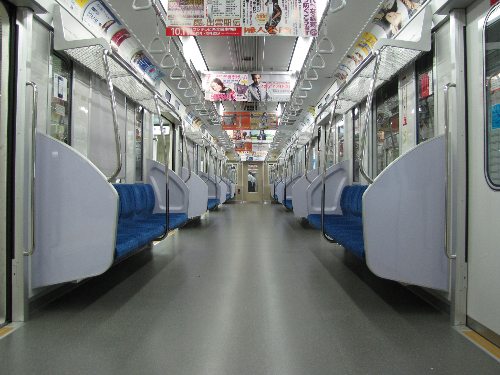 Interior view of Tokyo Metro Tozai Line 15000 series EMU (Car No. 15701)